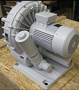 Sidechannel blower